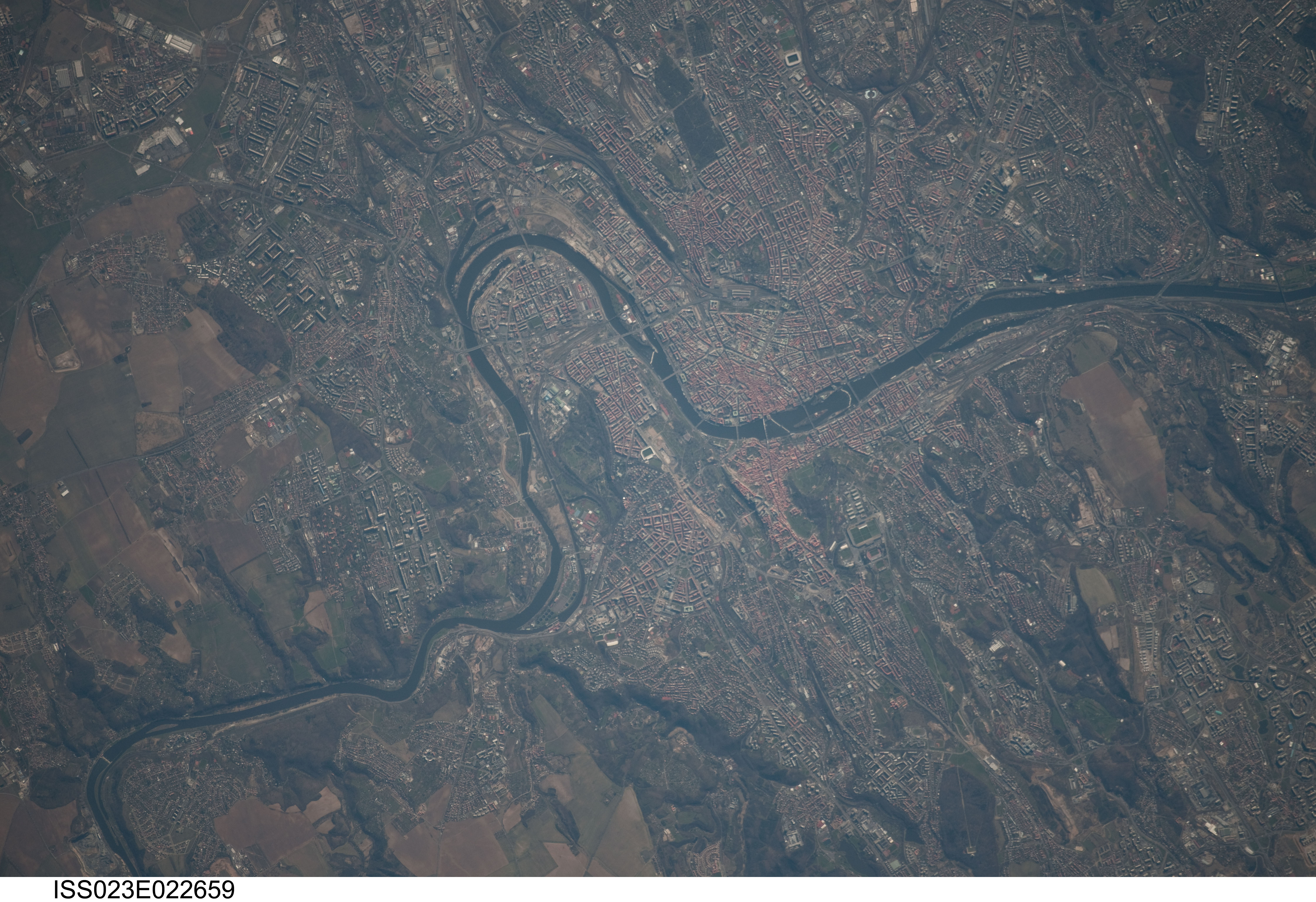 Astronaut Photo of Prague, Czech Republic taken from the International Space Station (ISS) during Expedition 23 on April 8, 2010.